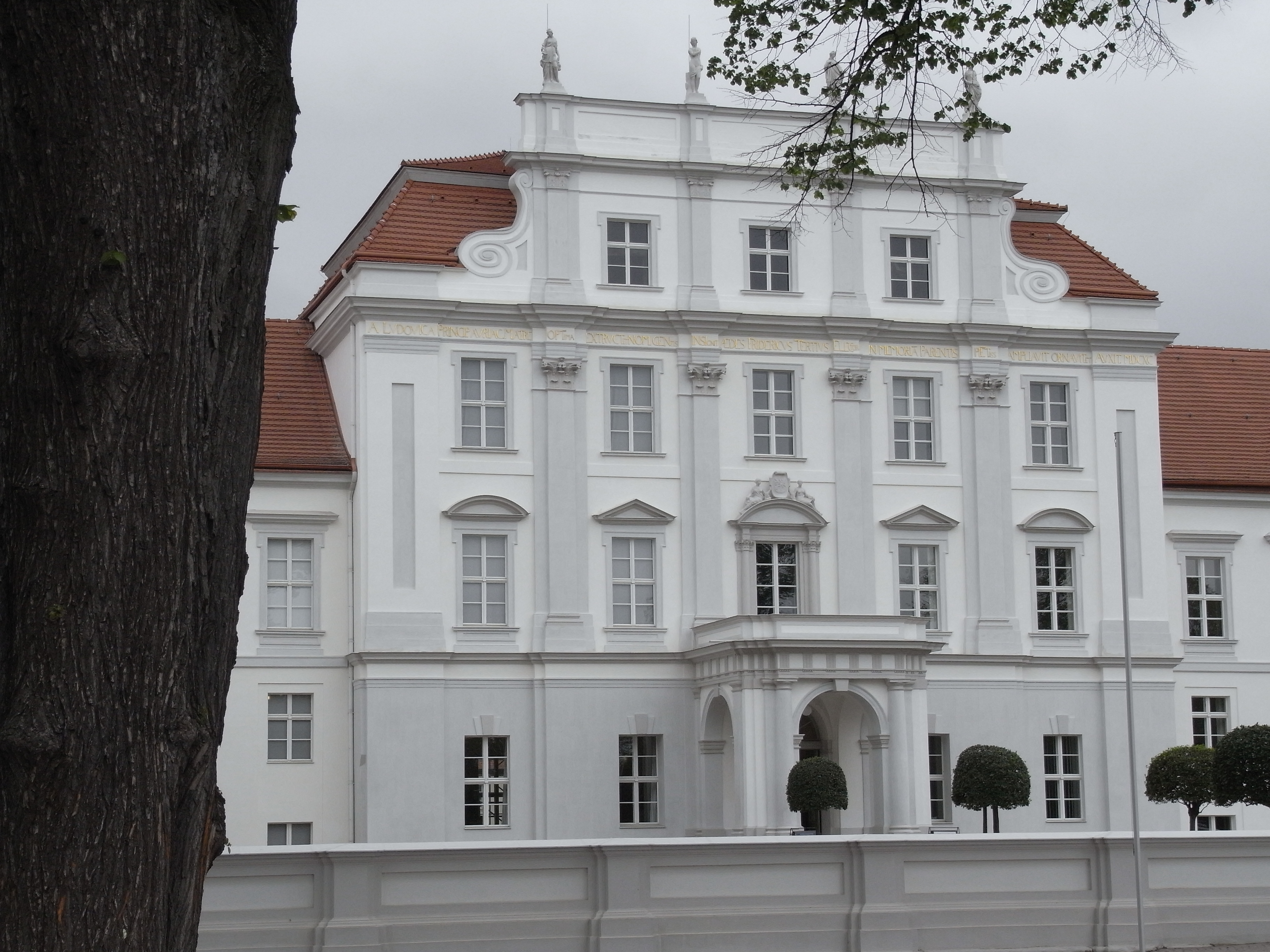 Castle Oranienburg